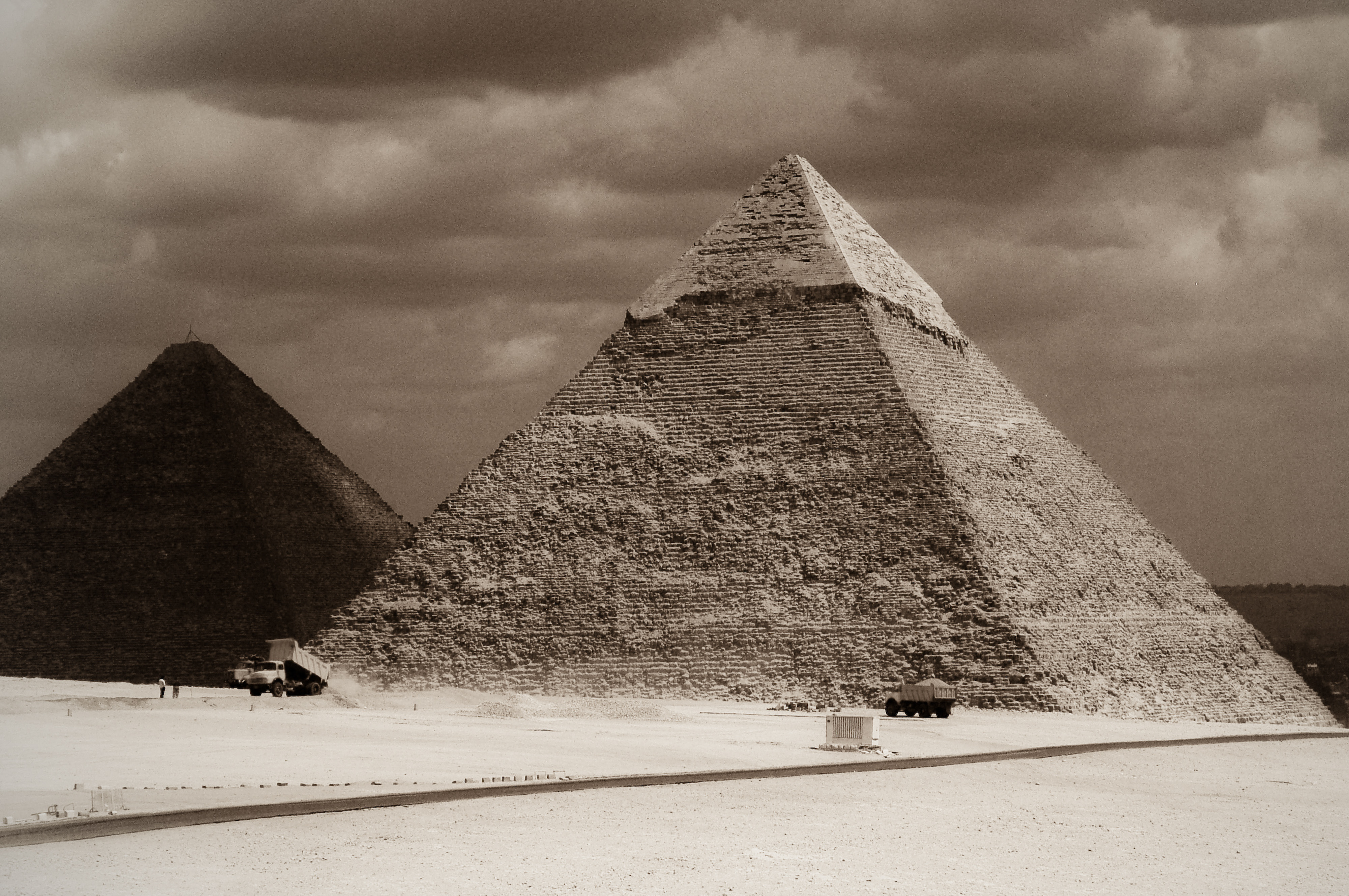 Great Pyramid of Giza (KhufuвЂ™s pyramid), Pyramid of Khafre (left to right). Cairo, Egypt, North Africa.